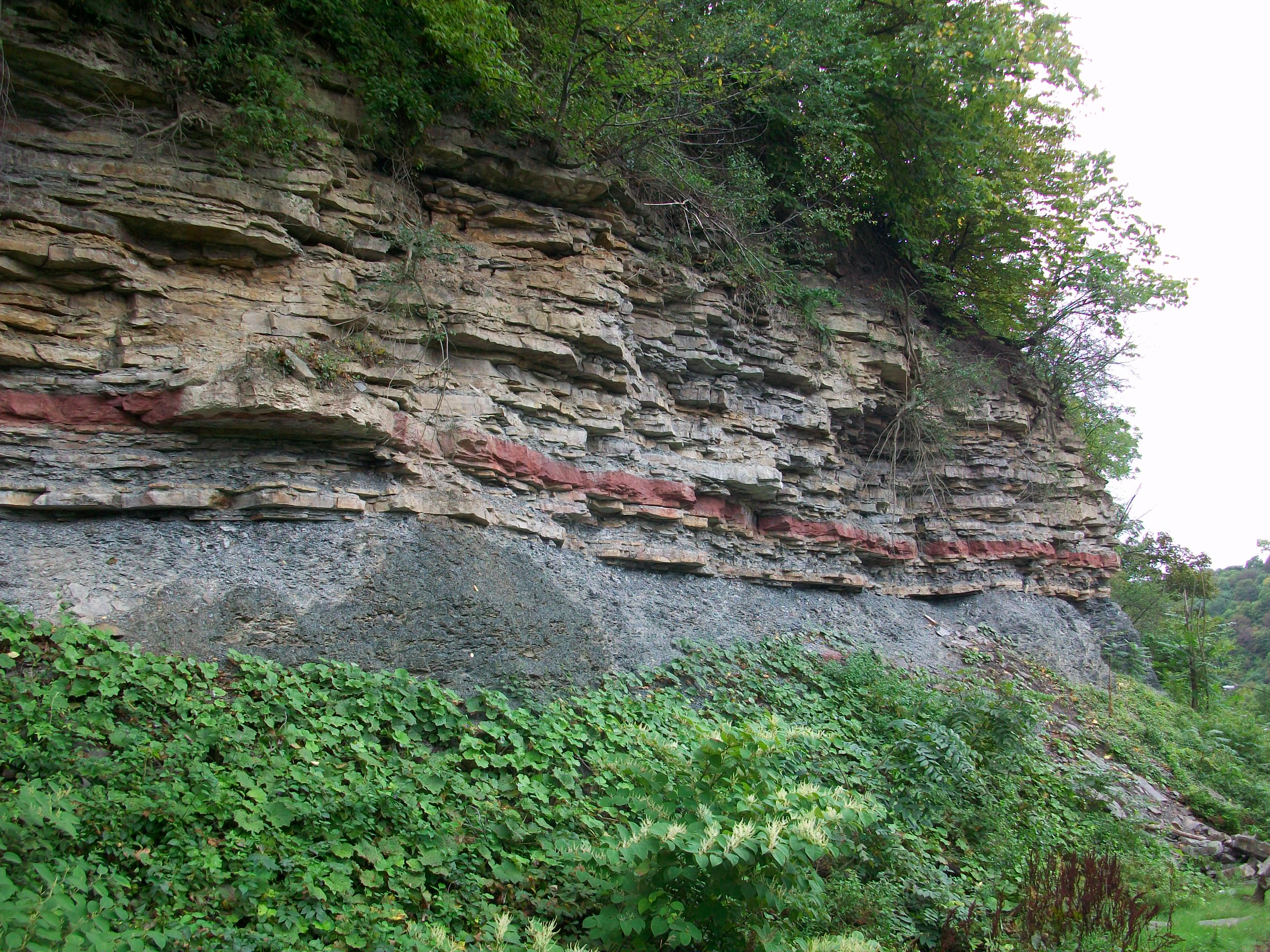 This is a photograph I took myself of a roadcut through the Reynales and Maplewood Formations of the Lower Silurian Clinton Group. The photograph shows a prominent red band, which is a sedimentary ironstone (the Furnaceville).